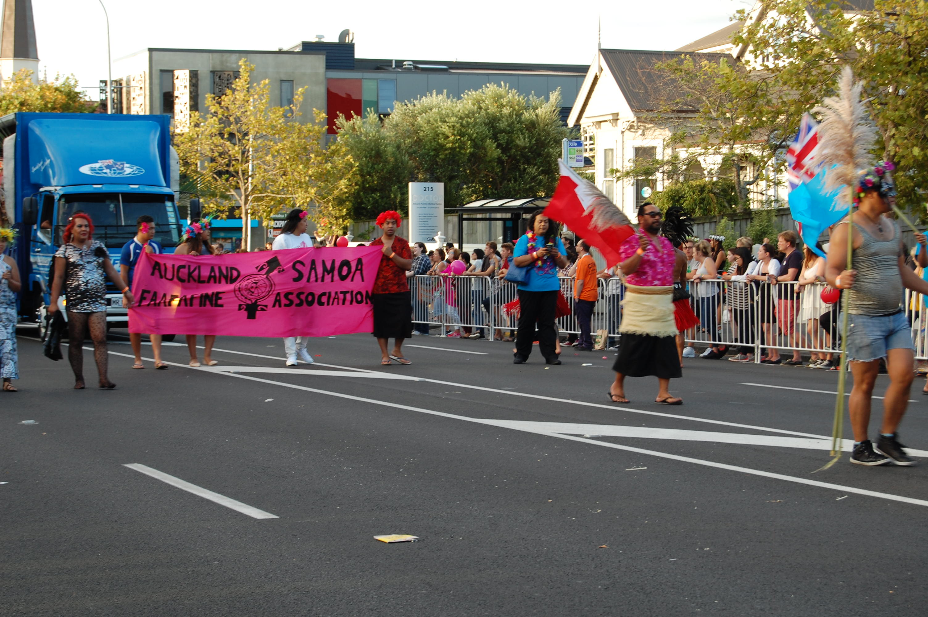 Auckland pride parade 2016 Personality rights warningAlthough this work is freely licensed or in the public domain, the person(s) shown may have rights that legally restrict certain re-uses unless those depicted consent to such uses. In these cases, a model release or other evidence of consent could protect you from infringement claims.